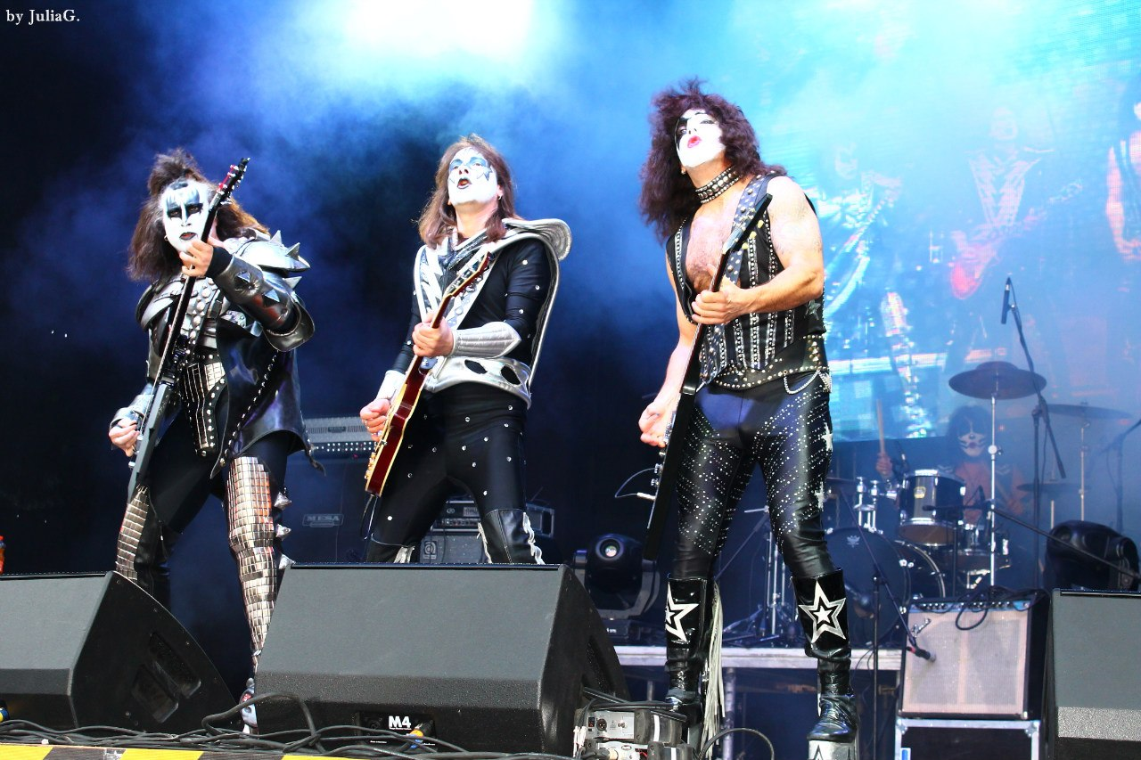 KFB_krock